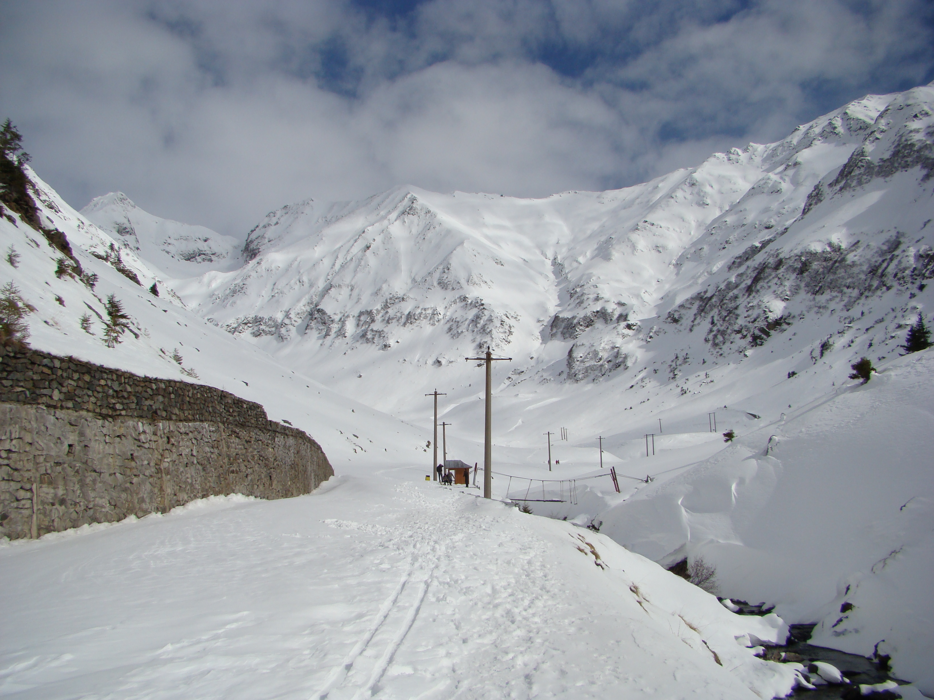 Transfagarasan during Winter. It is closed from November till April because of snow (from Km 104+ ). The road remains open between Cabana Capra, and Curtea De Arges, and is kept in good condition throughout the Winter season.